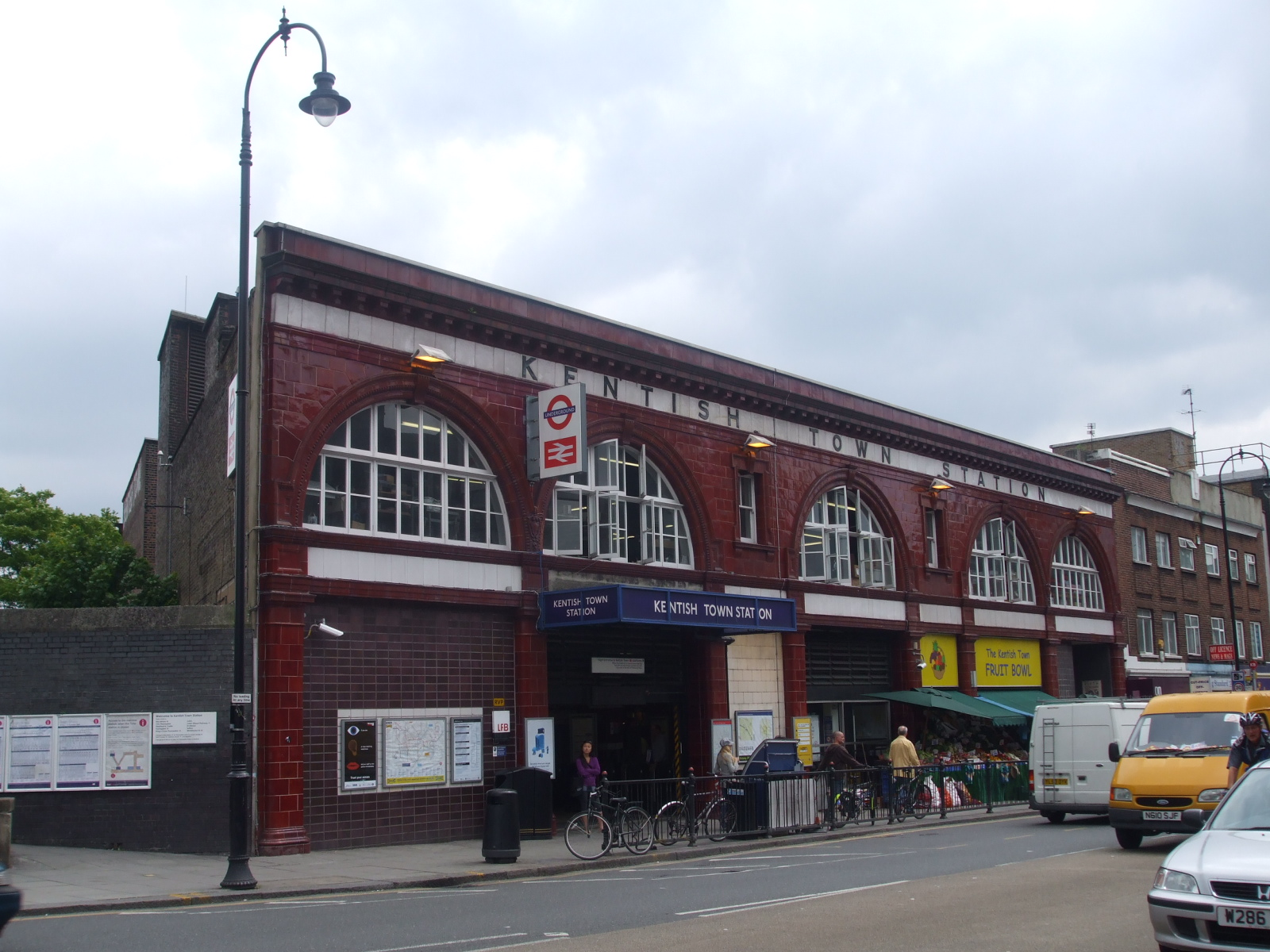 Kentish Town station building